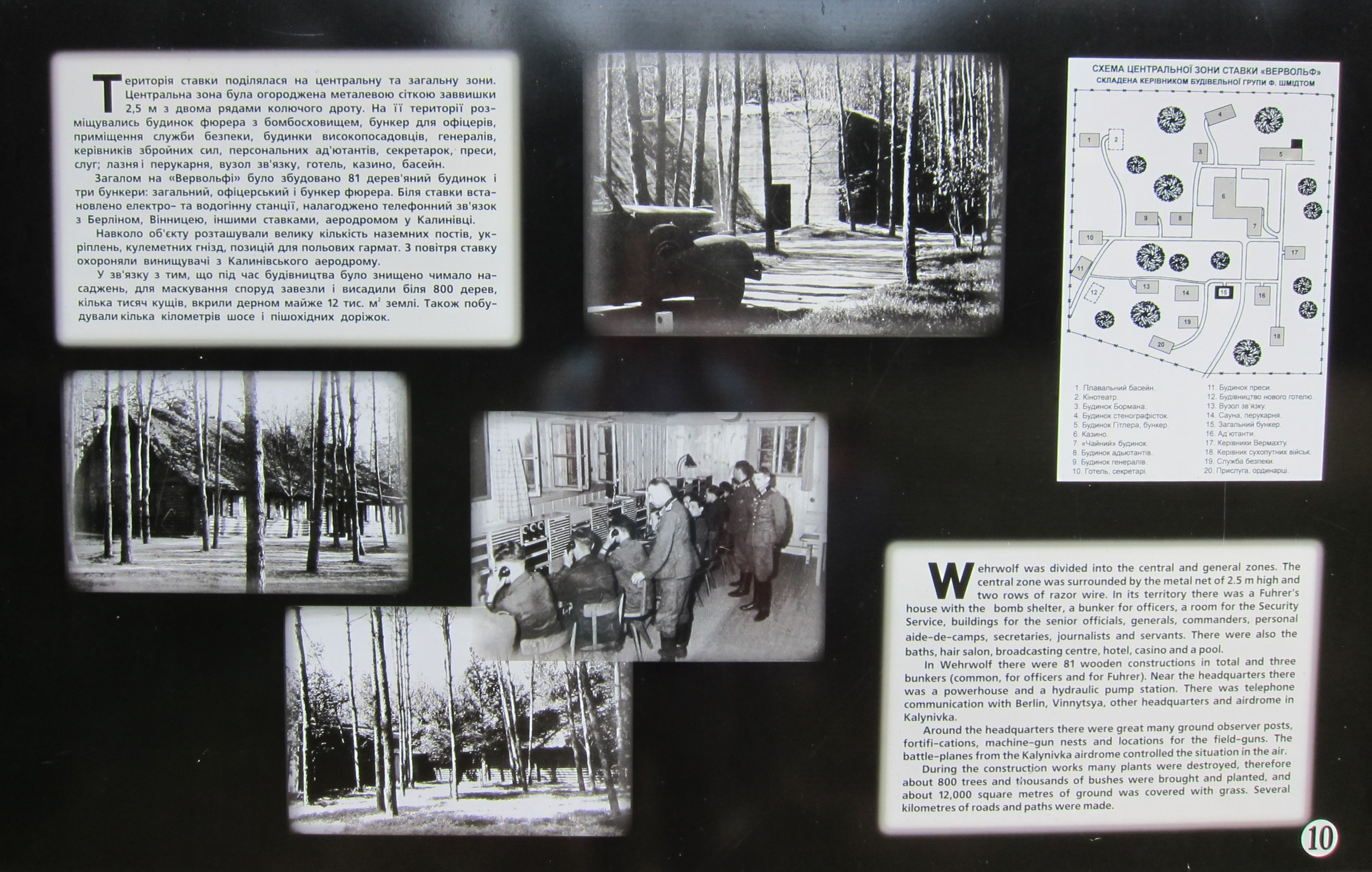 One of the information boards at Werwolf (Wehrmacht HQ). Plan of central part.